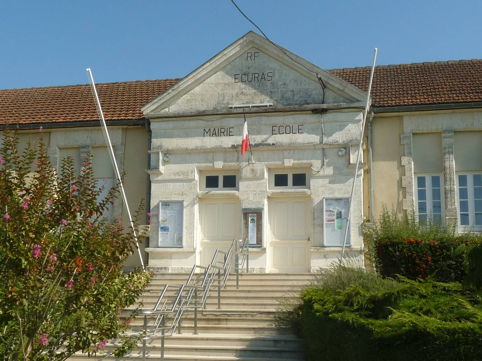 town hall of Ecuras, Charente, SW France